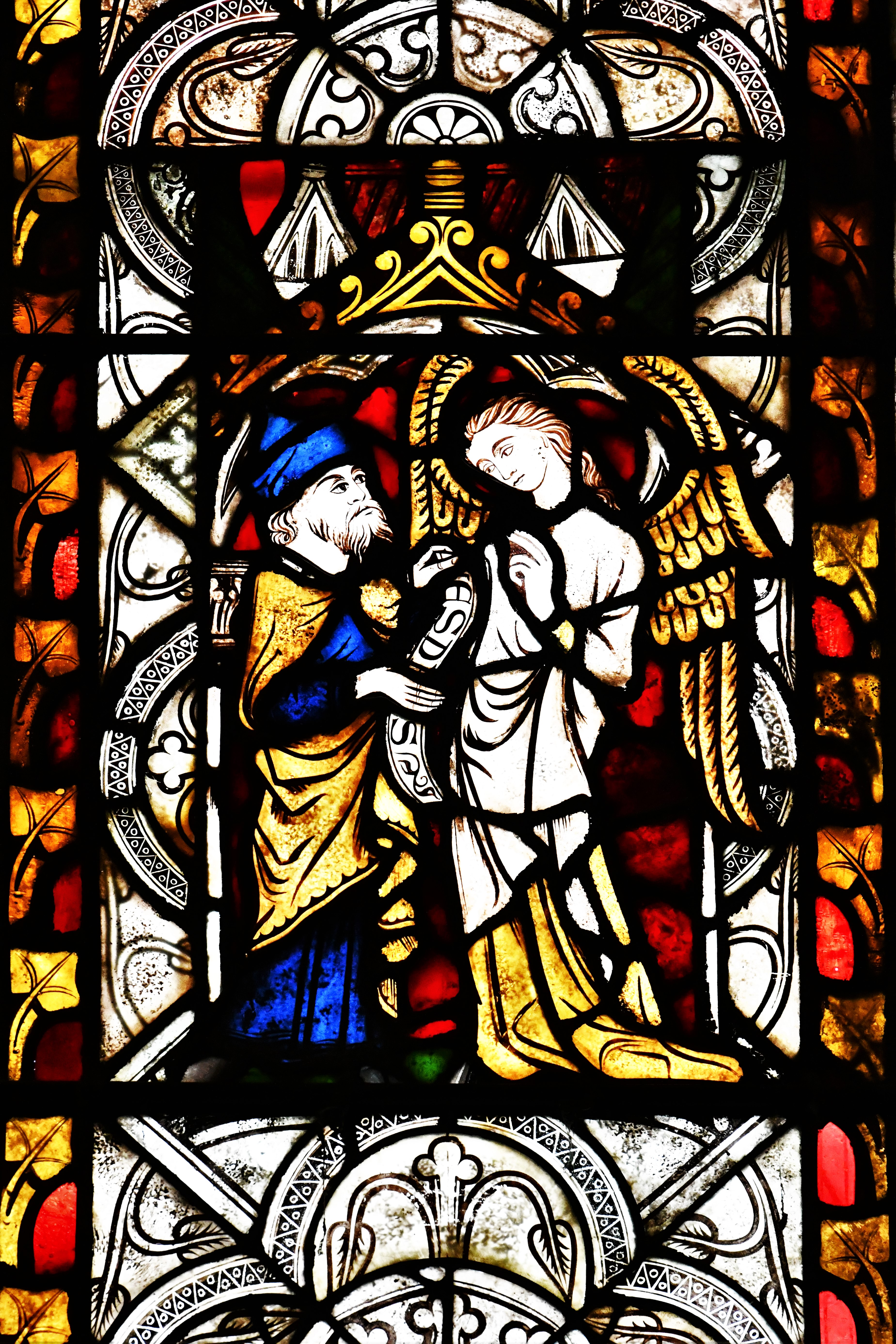 The Archangel Uriel with Esdras (Ezra), parish church of St Michael, Kingsland. Uriel, who was sent by God to instruct Esdras (Book of Esdras 2: 4), depictions of this archangel on medieval stained glass are rare. He can, however, be seen (albeit in a heavily restored condition,) alongside the other archangels in the parish church of St Michael at Kingsland, Herefordshire. Reference: Panel of the Month: The Nine Orders of Angels.